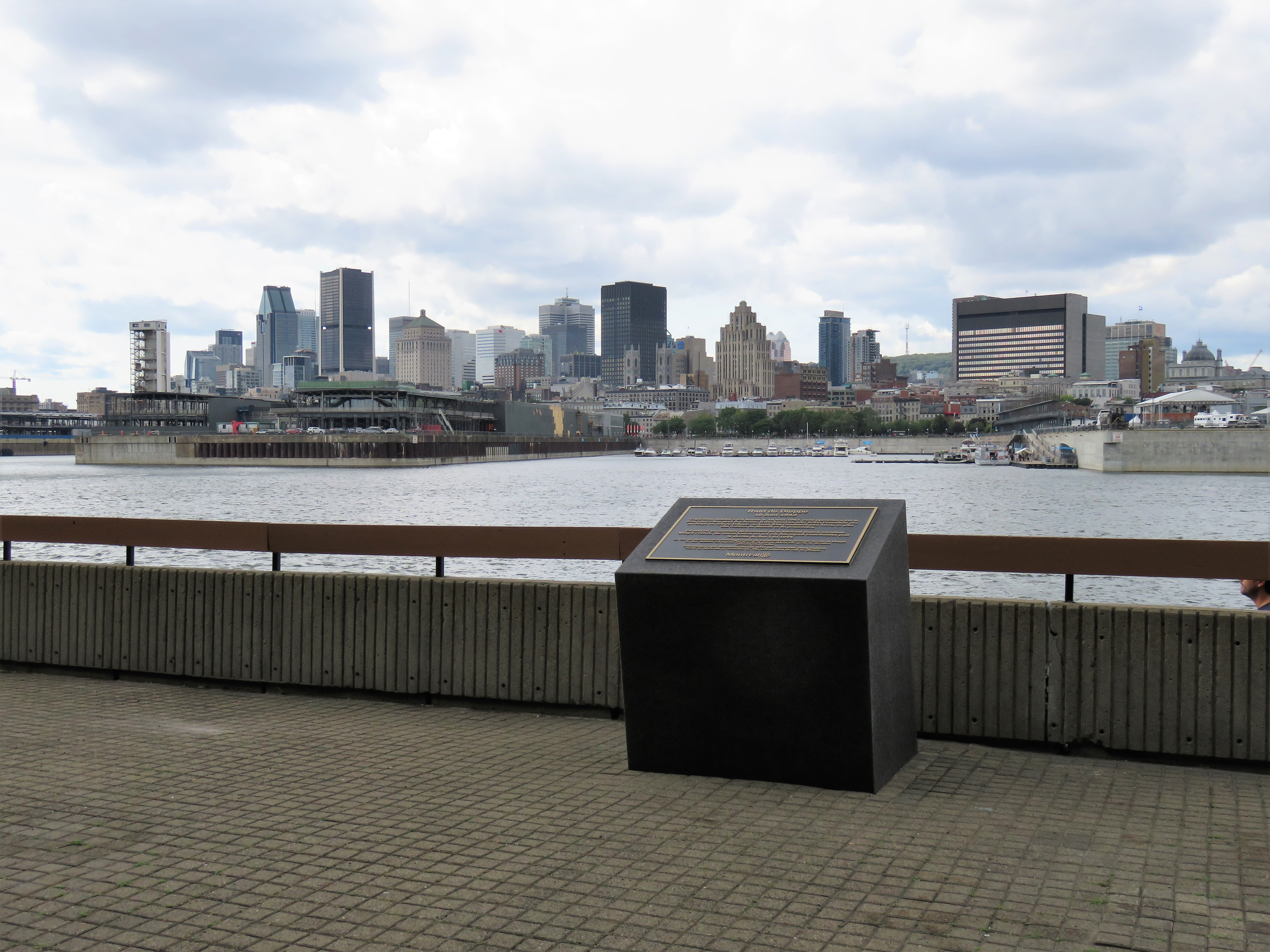 Commemorative plaque of Dieppe Raid, parc de Dieppe, Montreal, Quebec, Canada. View to Montréal.